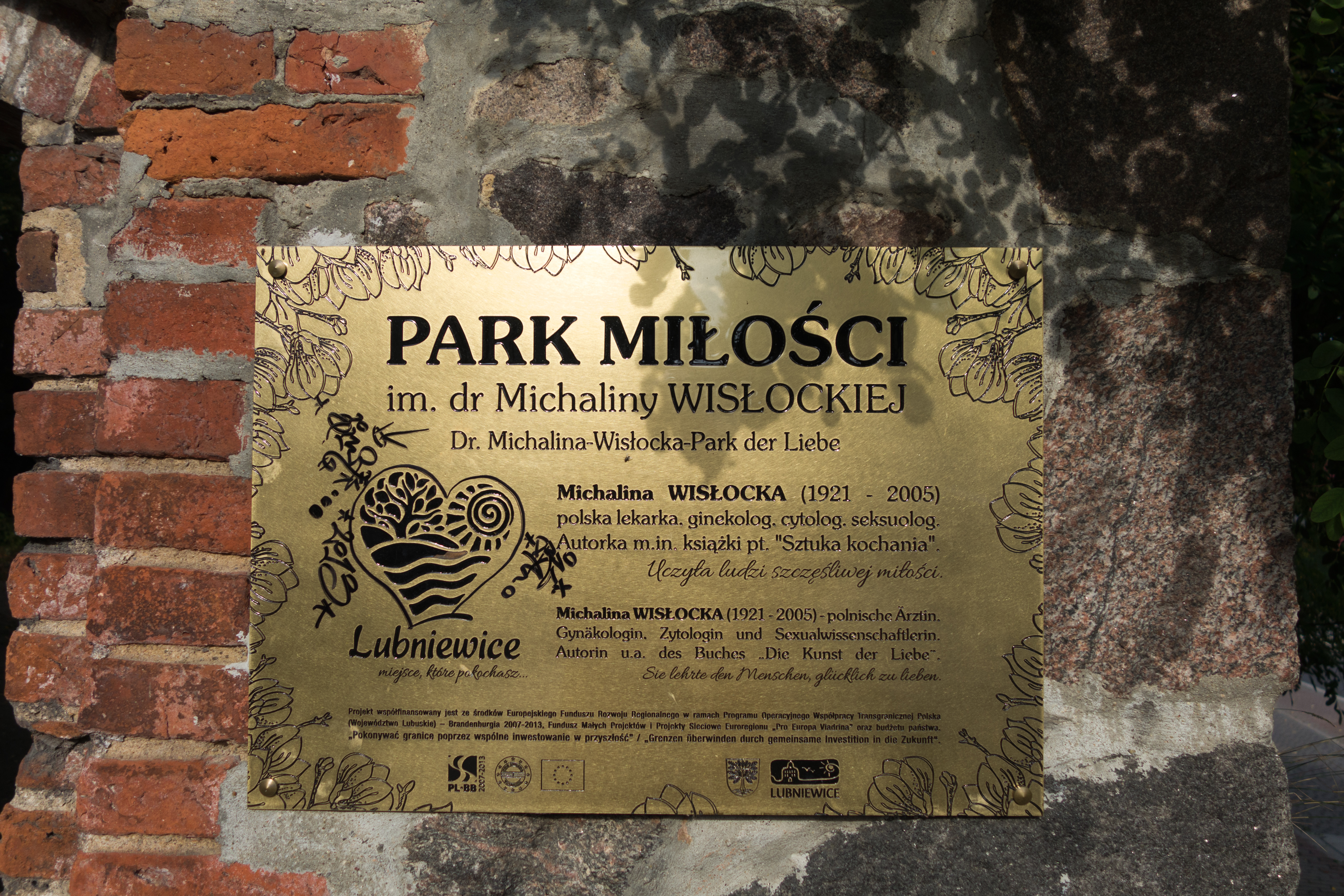 Michalina Wislocka Love Park, Lubniewice (Poland)